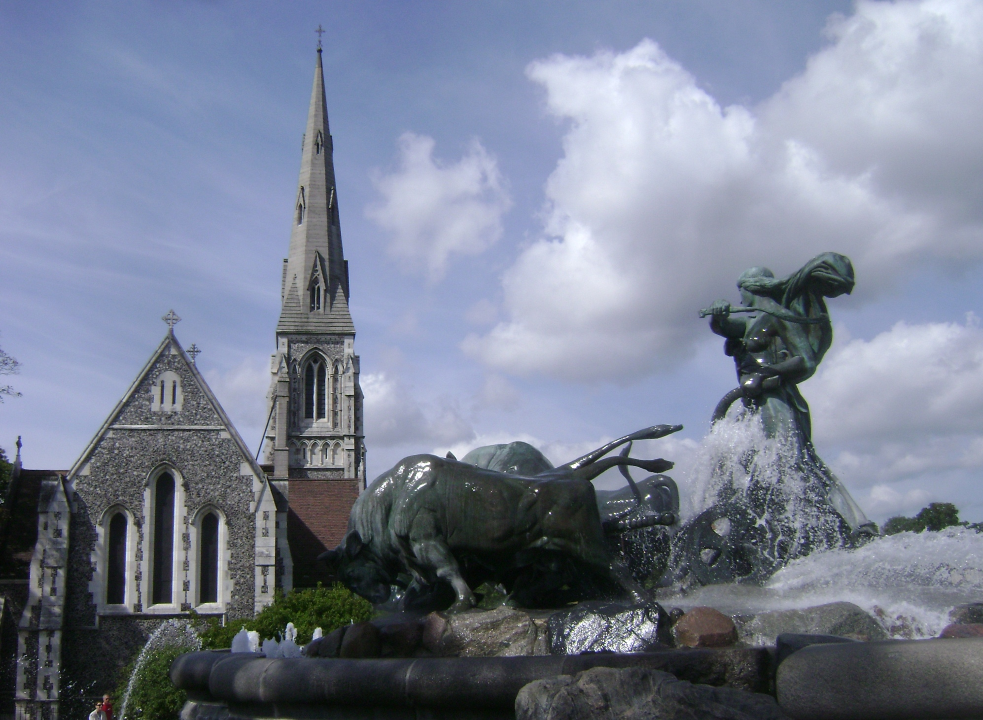 Denmark. Capital Region. Copenhagen, Gefion Fountain & St Albans Church